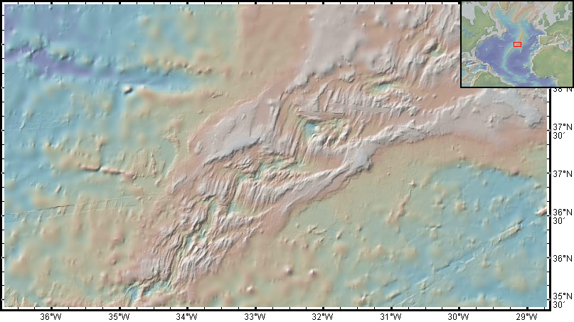 Rainbow is at 36 deg, 13' N in this image.